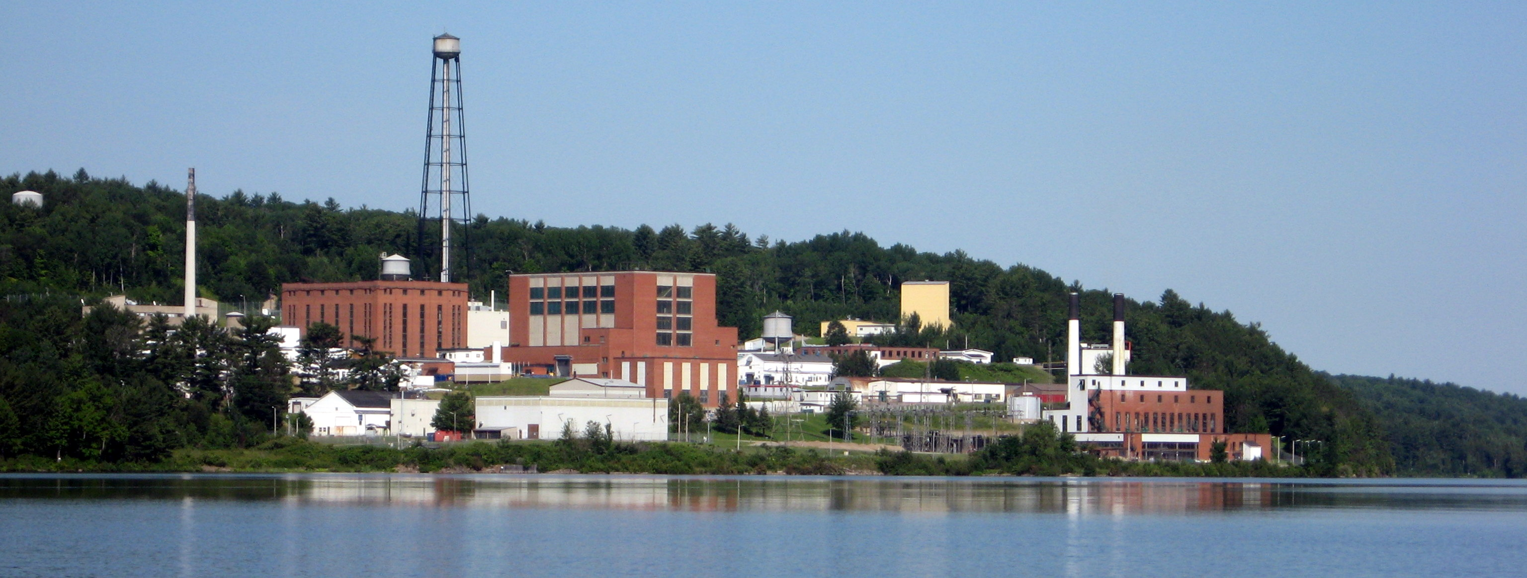 Chalk River Laboratories, run by Atomic Energy of Canada Limited, near Chalk River, Ontario, Canada. Photo take from Ottawa River.